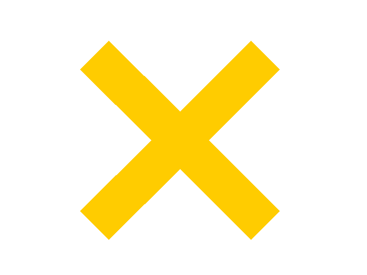 Mark of Ww2 GermanDivision Panzer 5 - 1941-1945